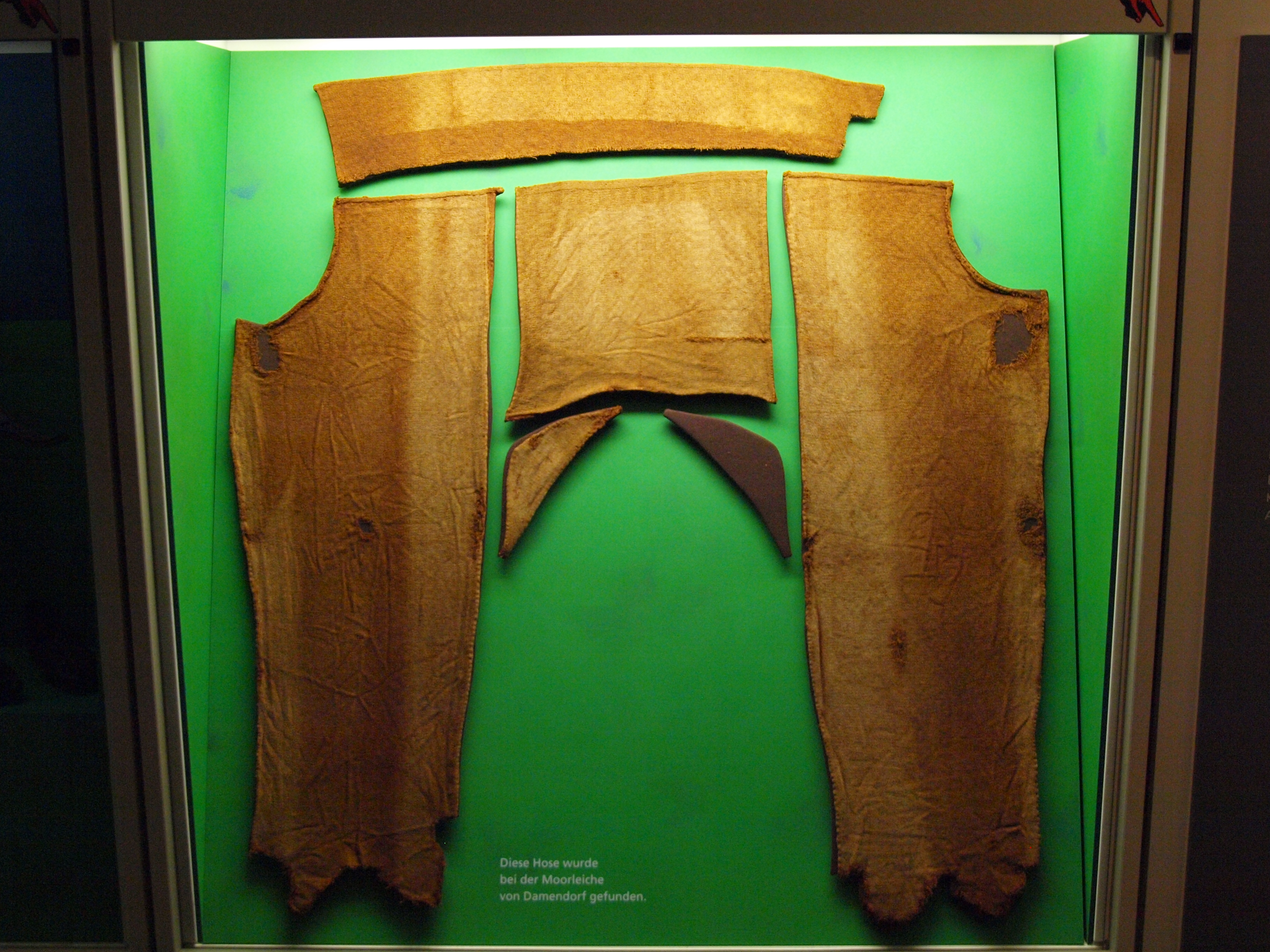 Single parts of the trousers of bog body Damendorf Man, dated around 2nd to 4th century, found near Damendorf, Rendsburg Eckerförde, Germany. On display at Archäologisches Landesmuseum Schloss Gottorf in Schleswig.